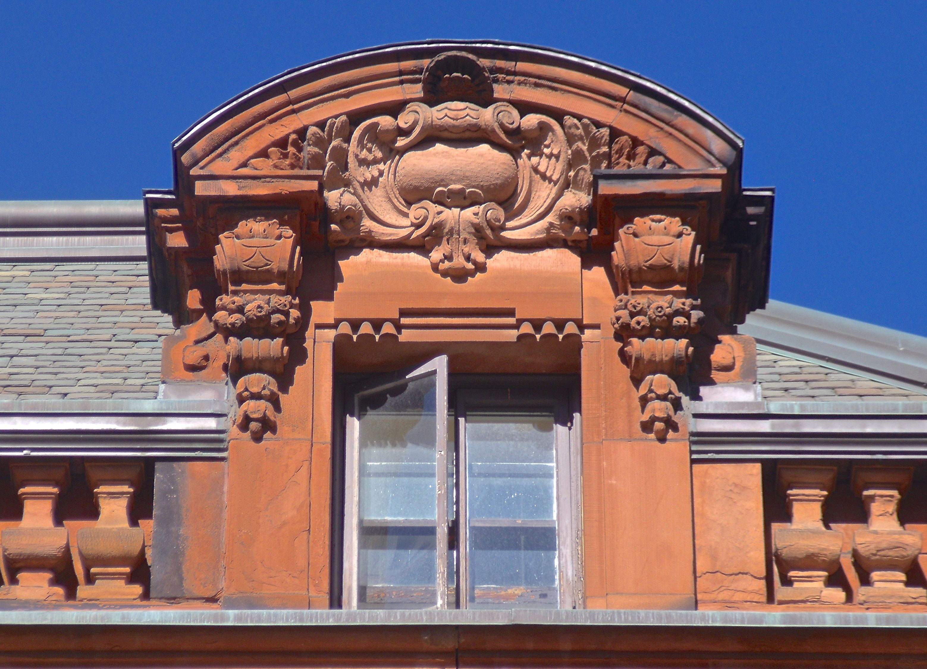 Charles Rudolph Hosmer House (1901), 3630 Sir-William-Osler Promenade (Drummond Street), Montreal, Quebec, Canada.